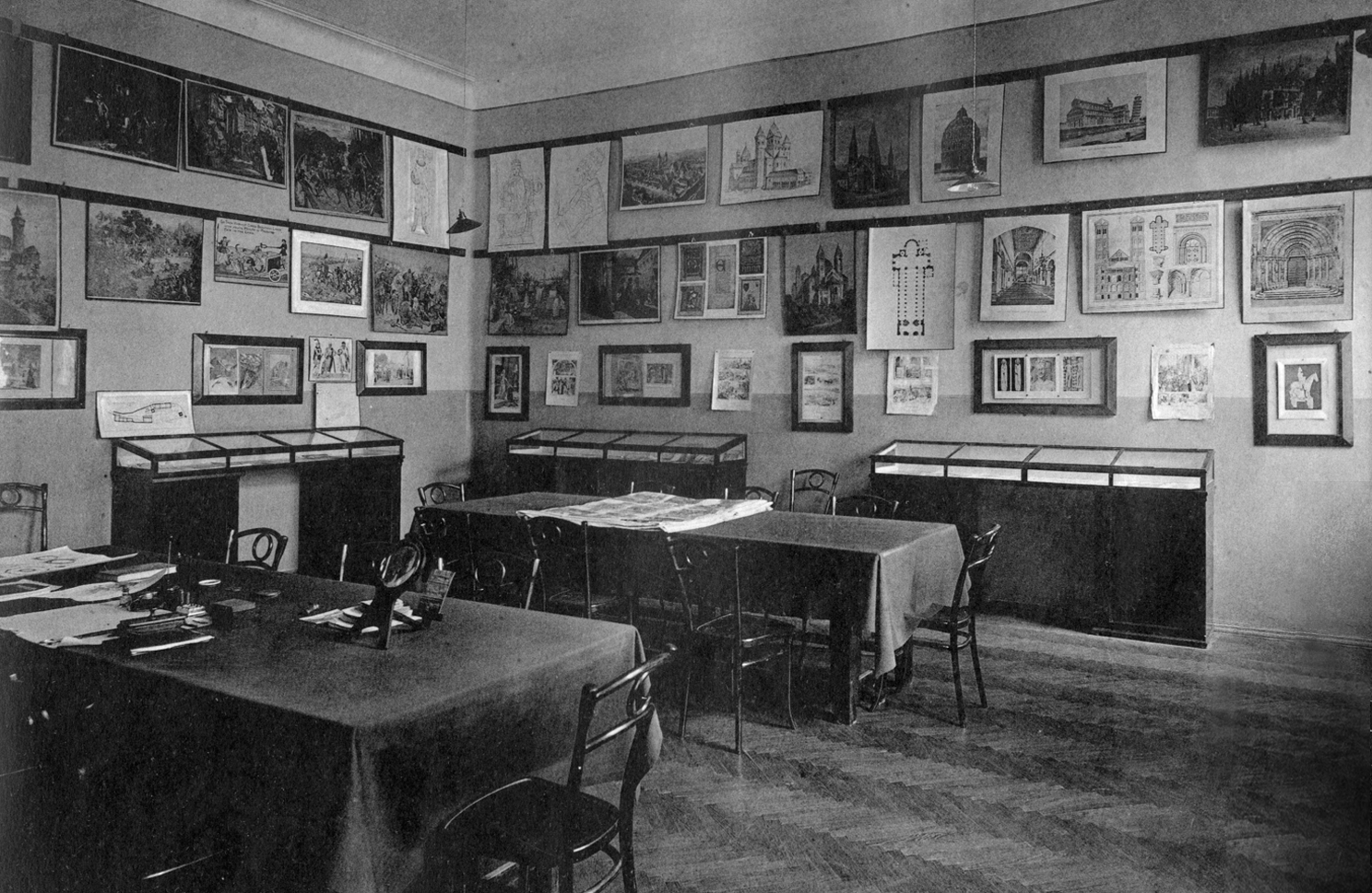 The museum of Karl May school in Saint-Petersburg, Russia.